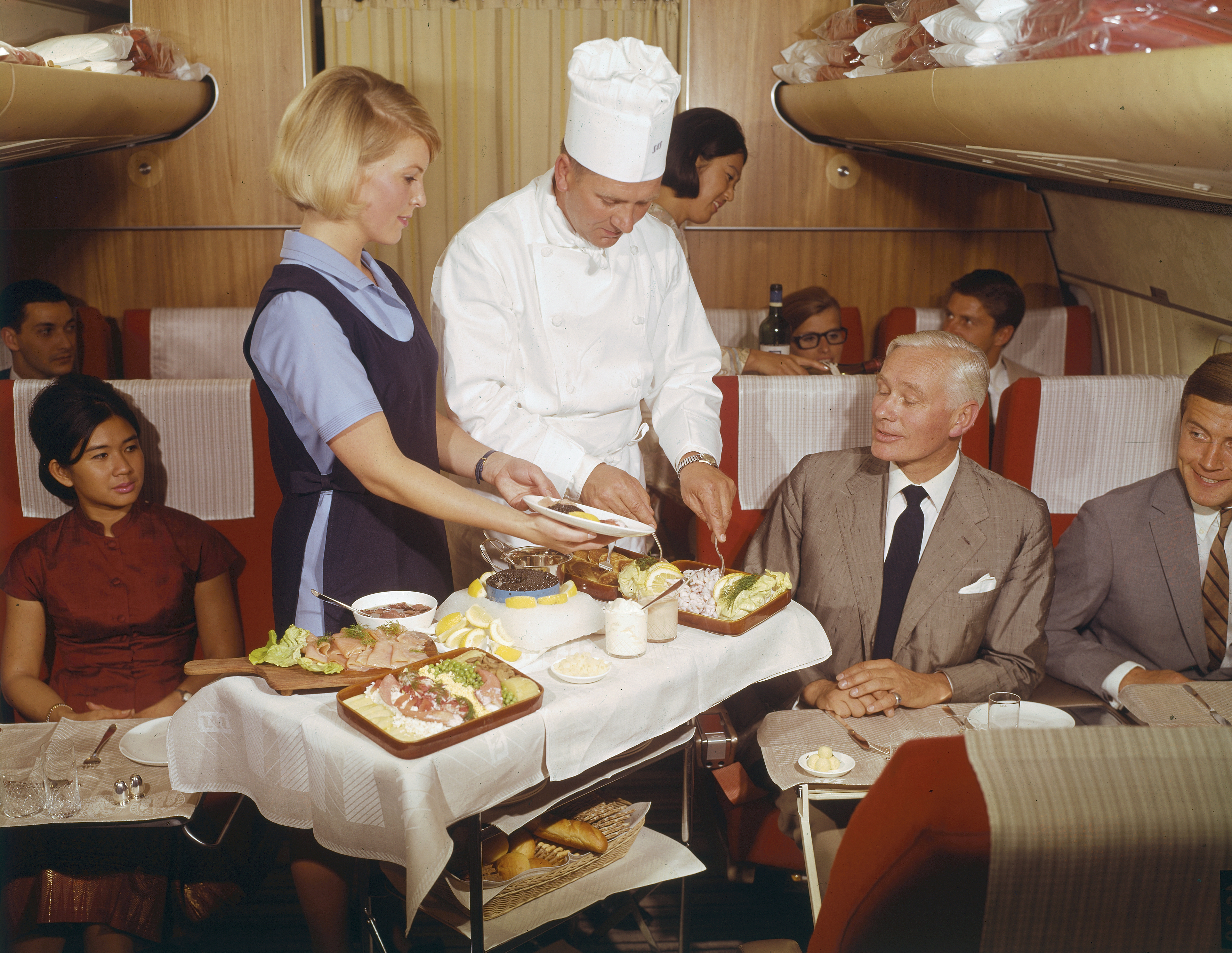 SAS DC-8-33. First Class1969. Interior of cabin, service on board by chef and air hostess